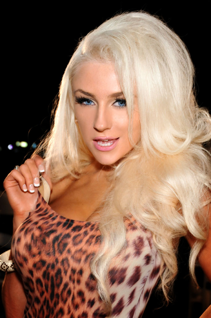 Courtney Stodden, Santa Ana, California on April 27, 2013 - Photo by Glenn Francis of